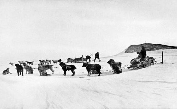 Relief party, consisting of Apsley Cherry-Garrard, Dimitri Gerof and Edward Atkinson with two dog-sledges, on the day of their departure from Hut Point in order to search for the missing Southern Party (Scott, Bowers, Wilson, P.O. Evans and Oates)